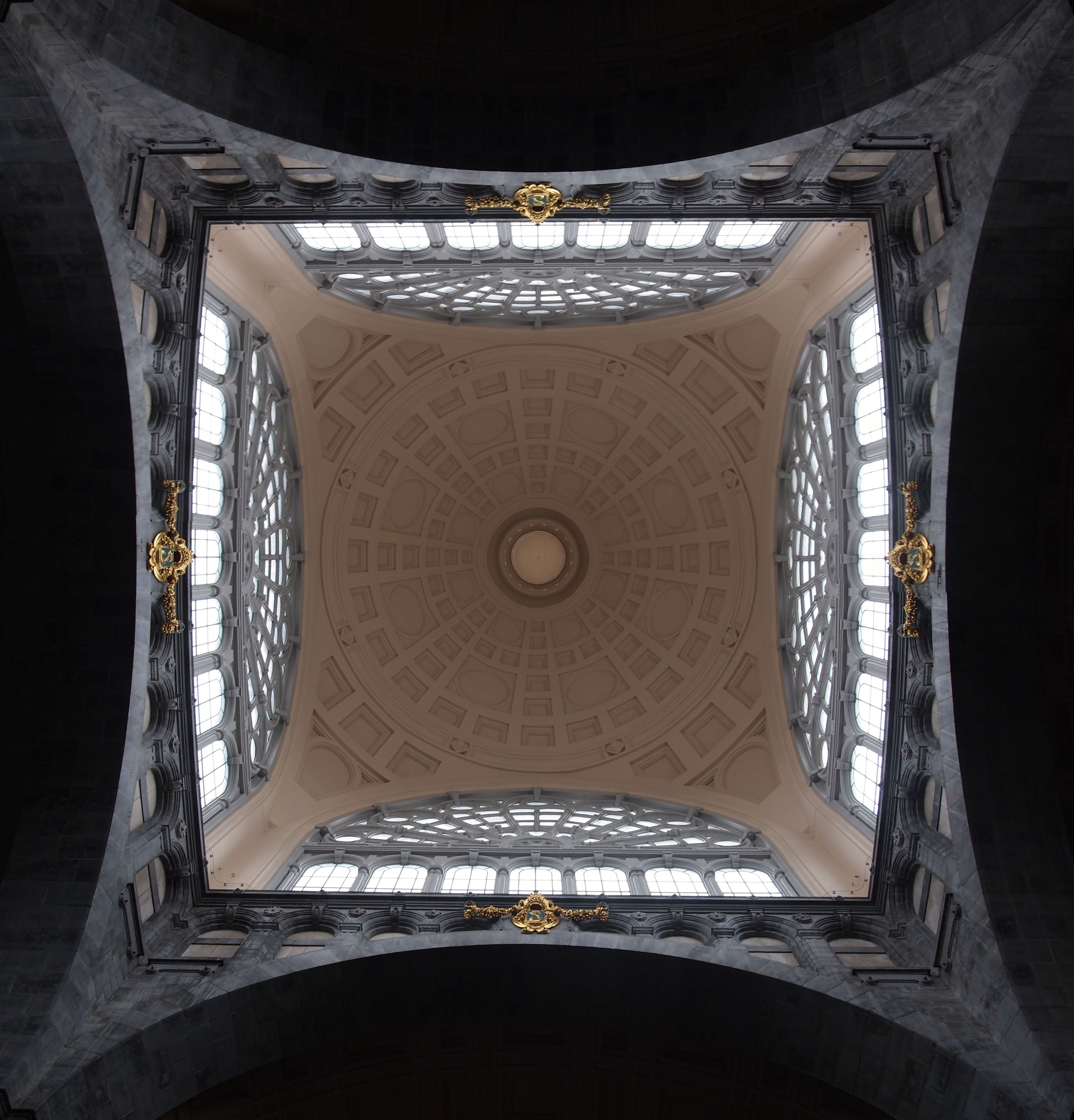 The cupola of the Central Station in Antwerp